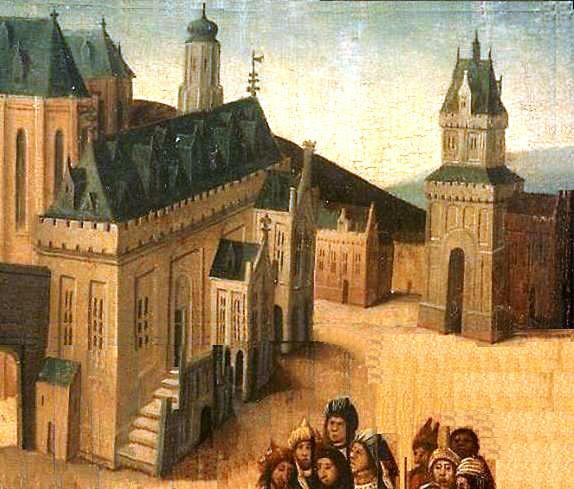 Old 15th century painting by the Master of Bellaert showing the subject of Christ before Pilate, also shows a detail of the Haarlem city Hall. This painting was originally discovered in Rome in 1928. Research proves it to be a product of the anonymous artist "Master of Bellaert", who gets his name from Jacob Bellart, the earliest known printer of Haarlem, who illustrated his books with woodcuts by this same artist. In the background the city Hall of Haarlem is shown, with the original Dominican church behind it (torn down after the Protestant reformation and rebuilt in Renaissance style for city offices). On the right is the Market square with a fortified tower at the corner of the Barteljorisstraat.